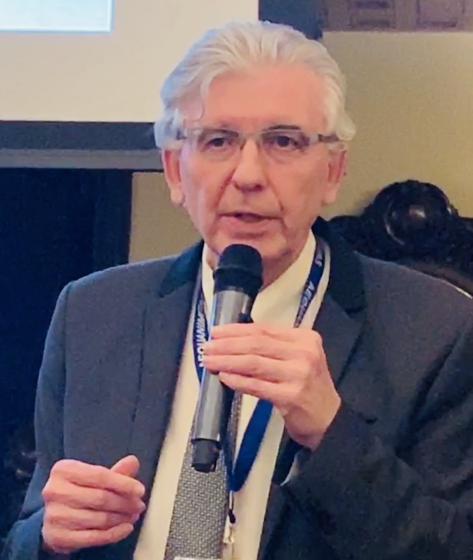 Ronaldo Del Maestro, Montreal (2019), addressing American Osler Society